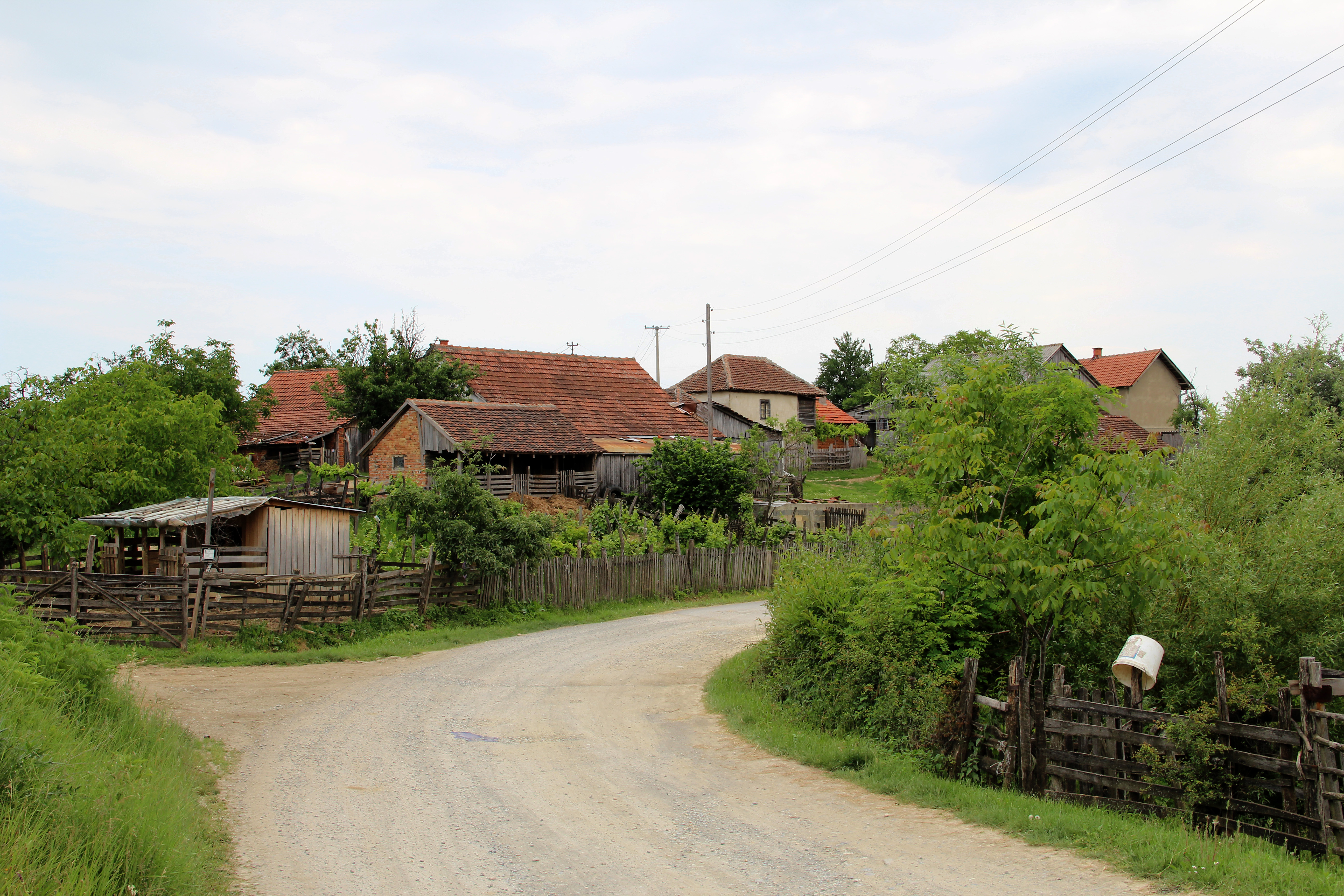 Rađevo Selo village - Municipality of Valjevo - Western Serbia - Panorama 1